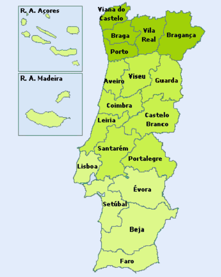 Regions of Portugal considered by the rules of the Portuguese Mathematical Olympiad.